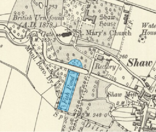 OS Six-inch England and Wales, 1842-1952 showing Shaw House, Newbury, and its ornamental canal